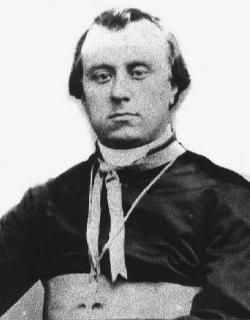 Cardinal Charles Martial Lavigerie (1825-1892) in 1863, the day of his episcopal ordination